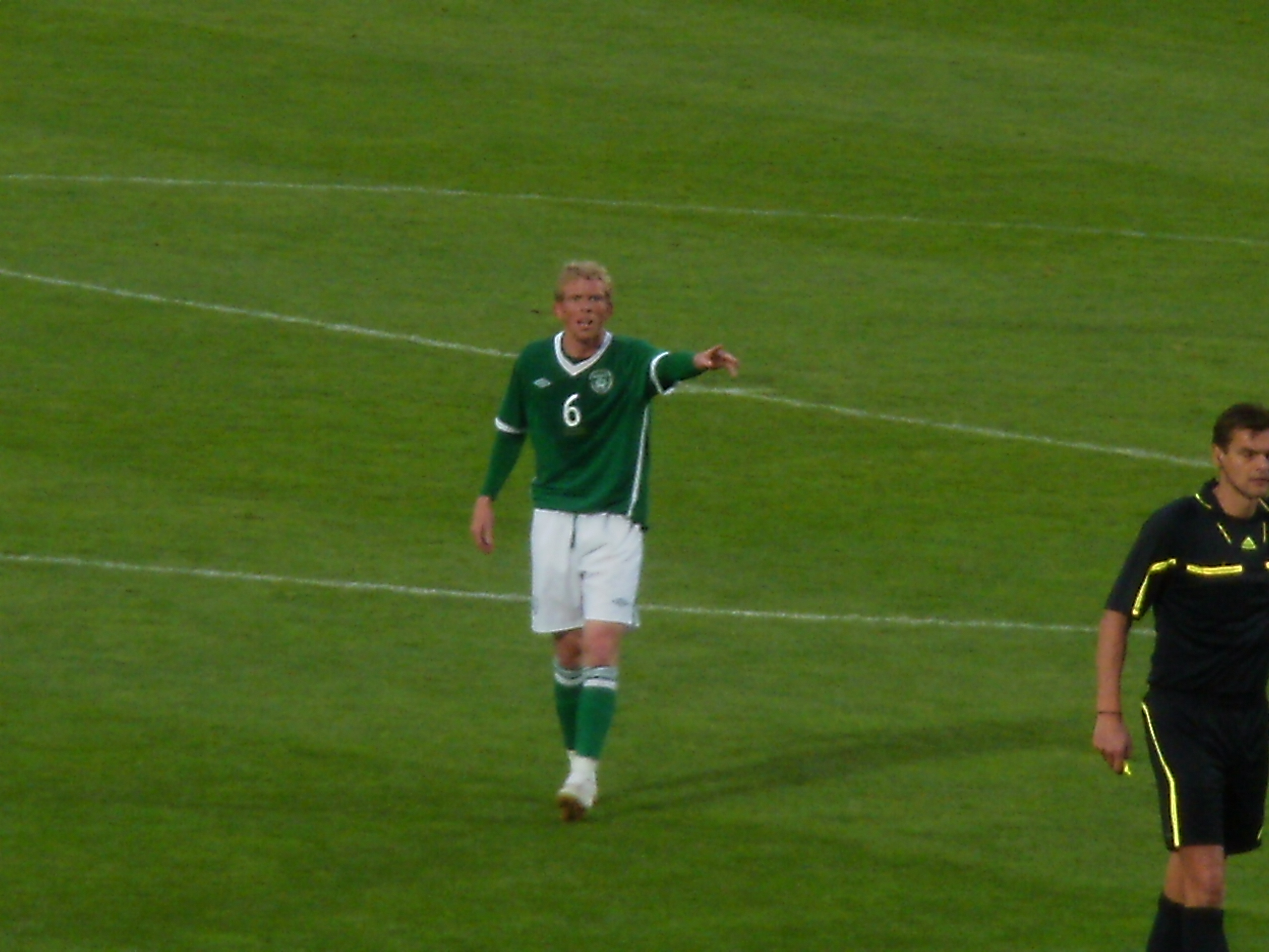 Paul Green for Ireland